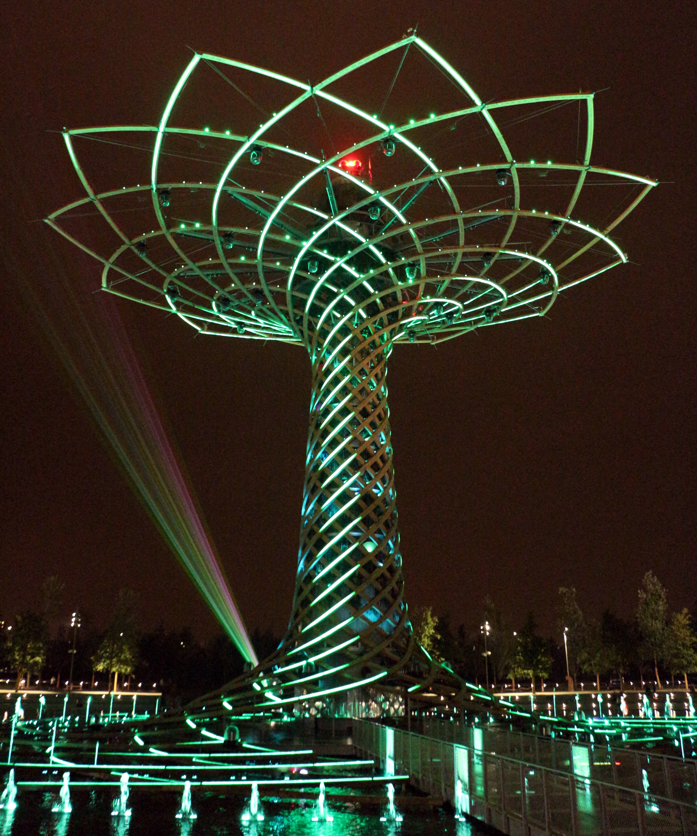 Albero della vita (Expo 2015)